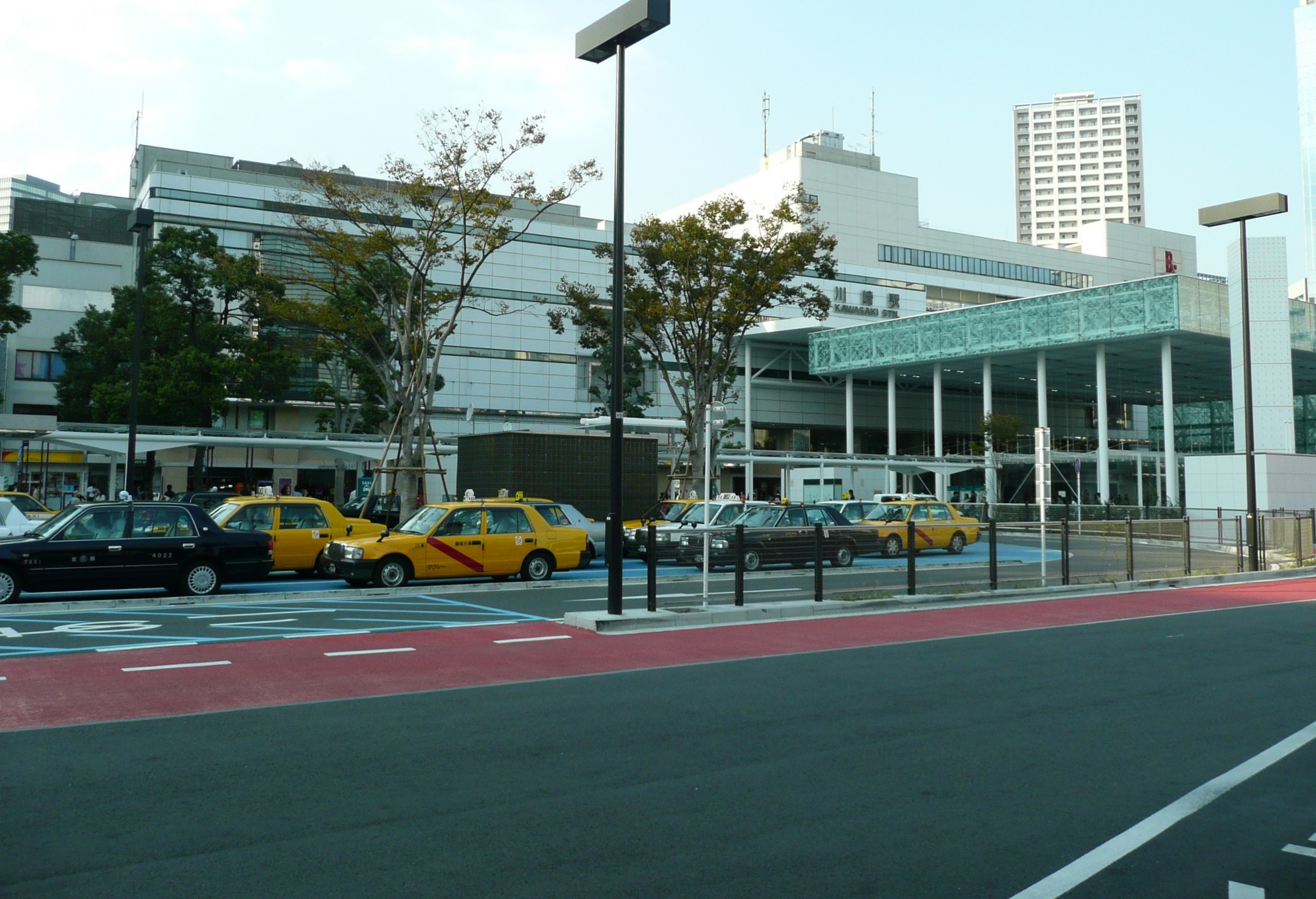 The east side of Kawasaki Station